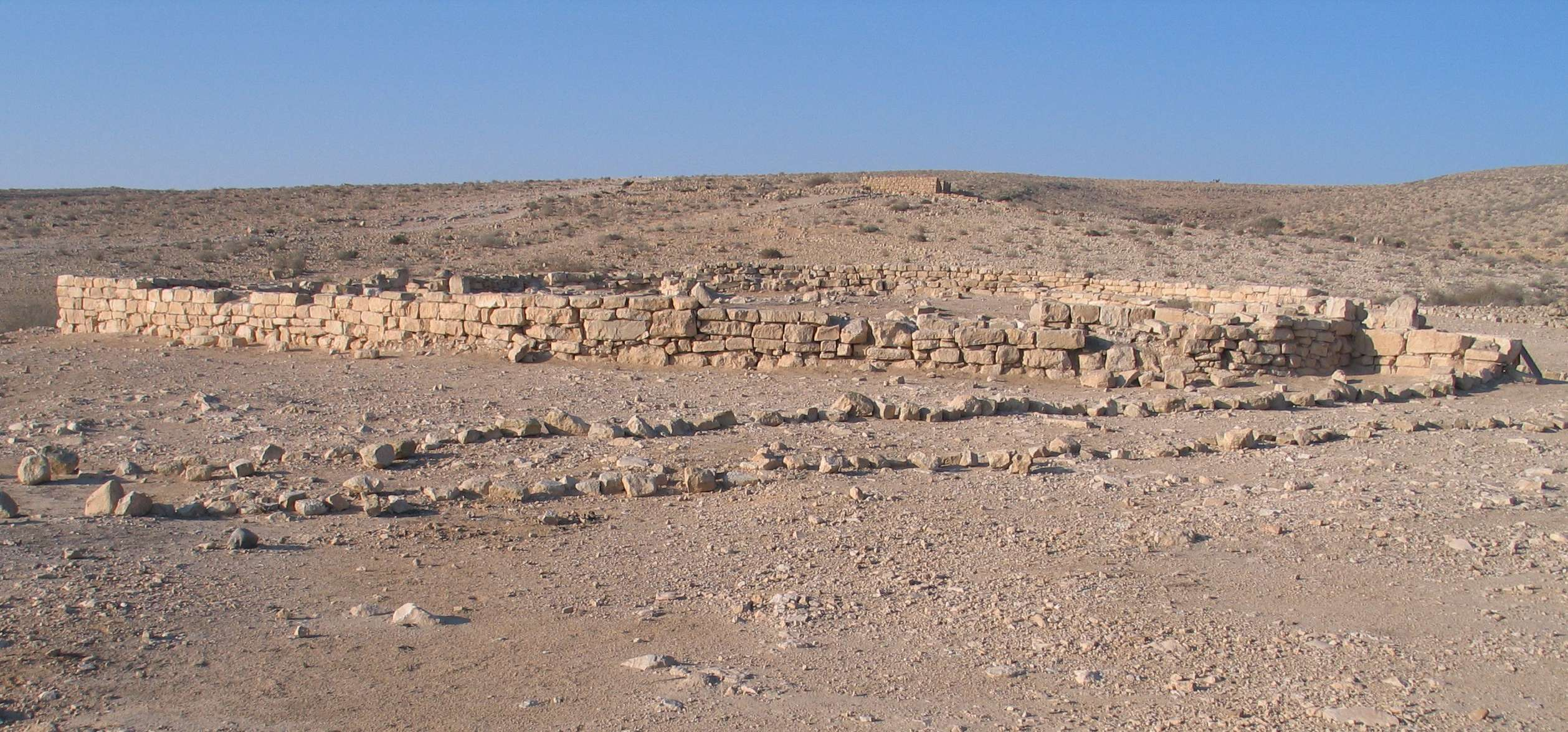 Hurvat Halukim, Israel.